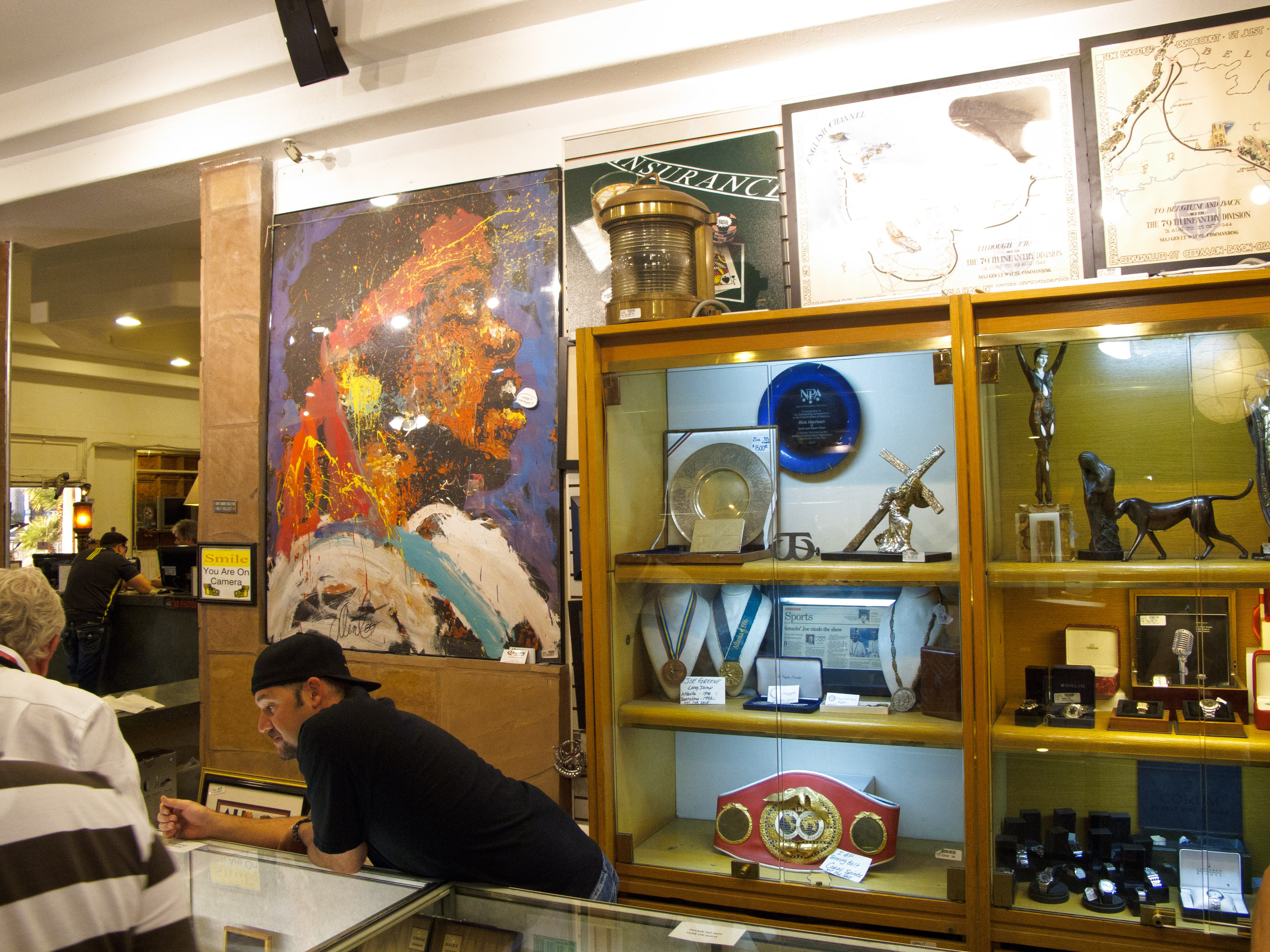 Inside the Pawn Stars' Shop